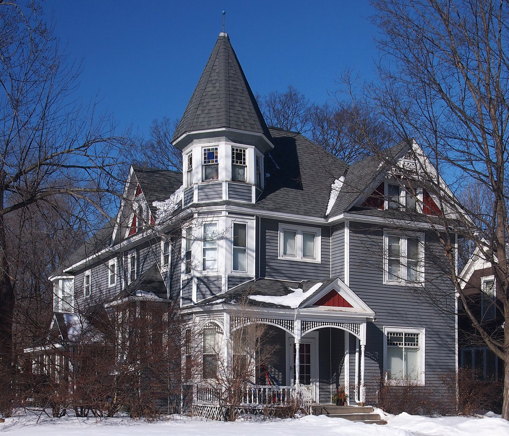 Simon Weldele House, 309 River St, Delano, Minnesota, USA. Viewed from the southeast.